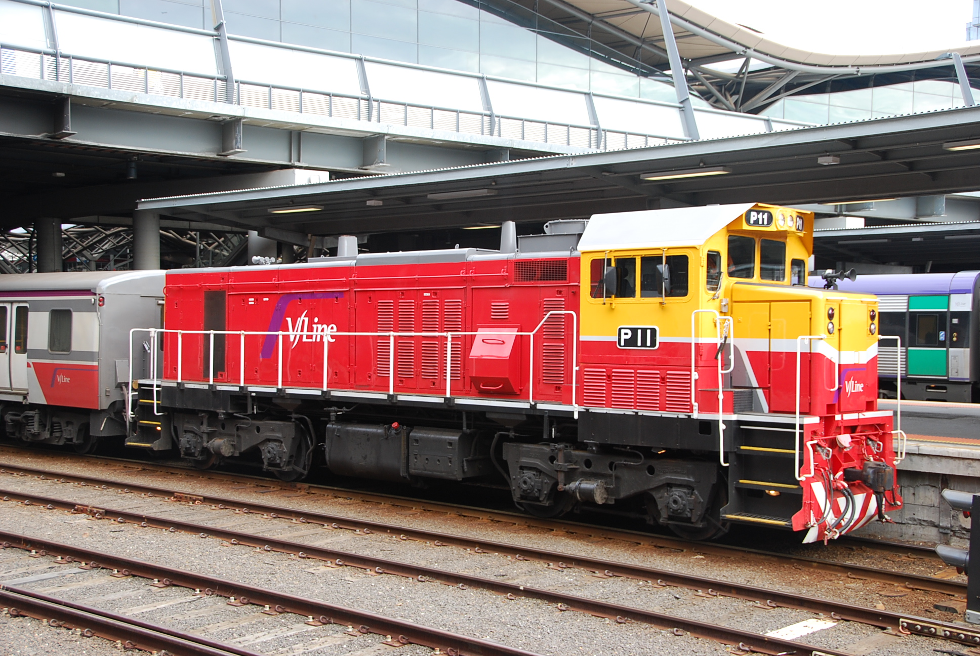 P11 in its new V/Line livery at Southern Cross, Melbourne.